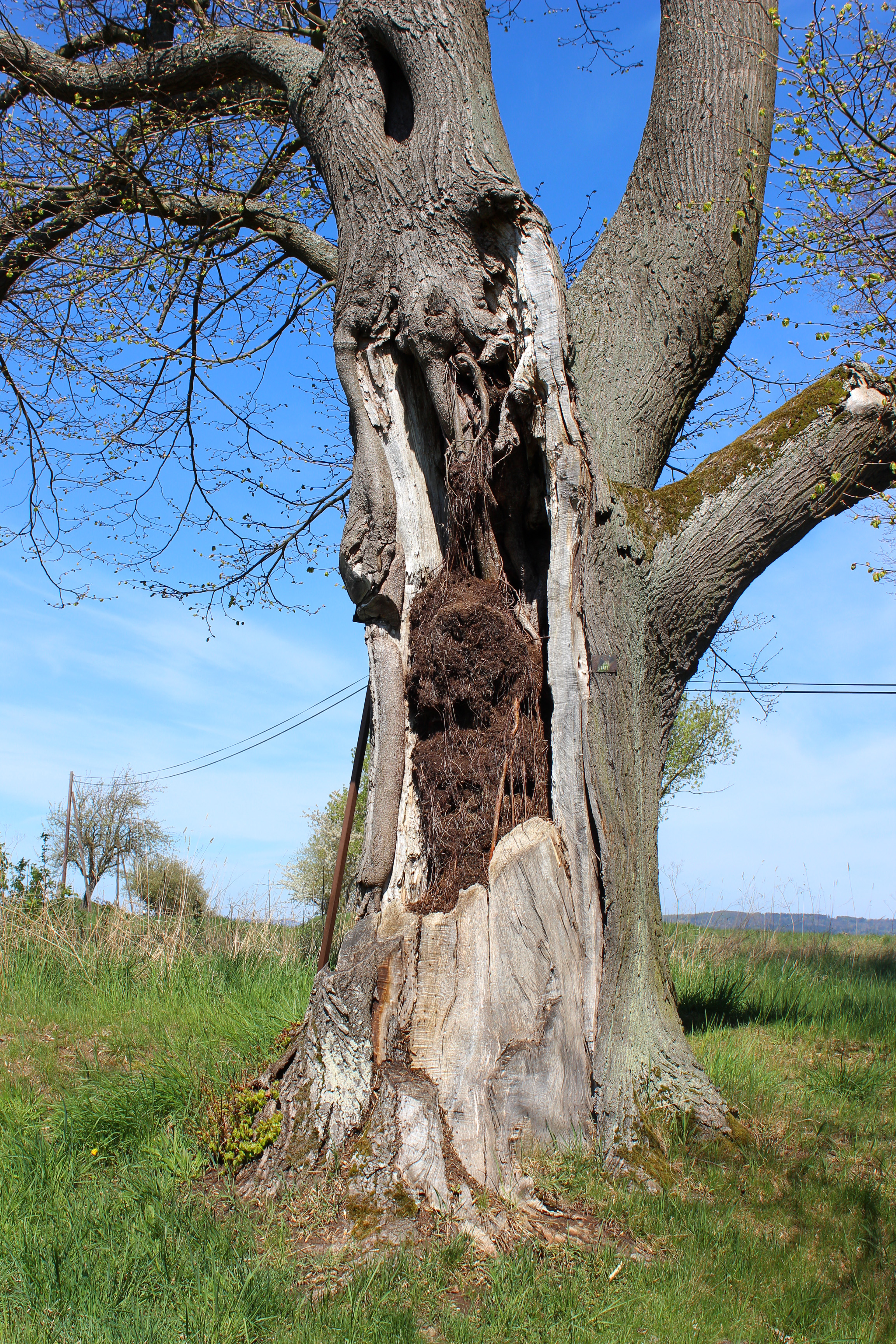 Protected lime tree in Slavice village, part of Horní Kozolupy, Czech Republic